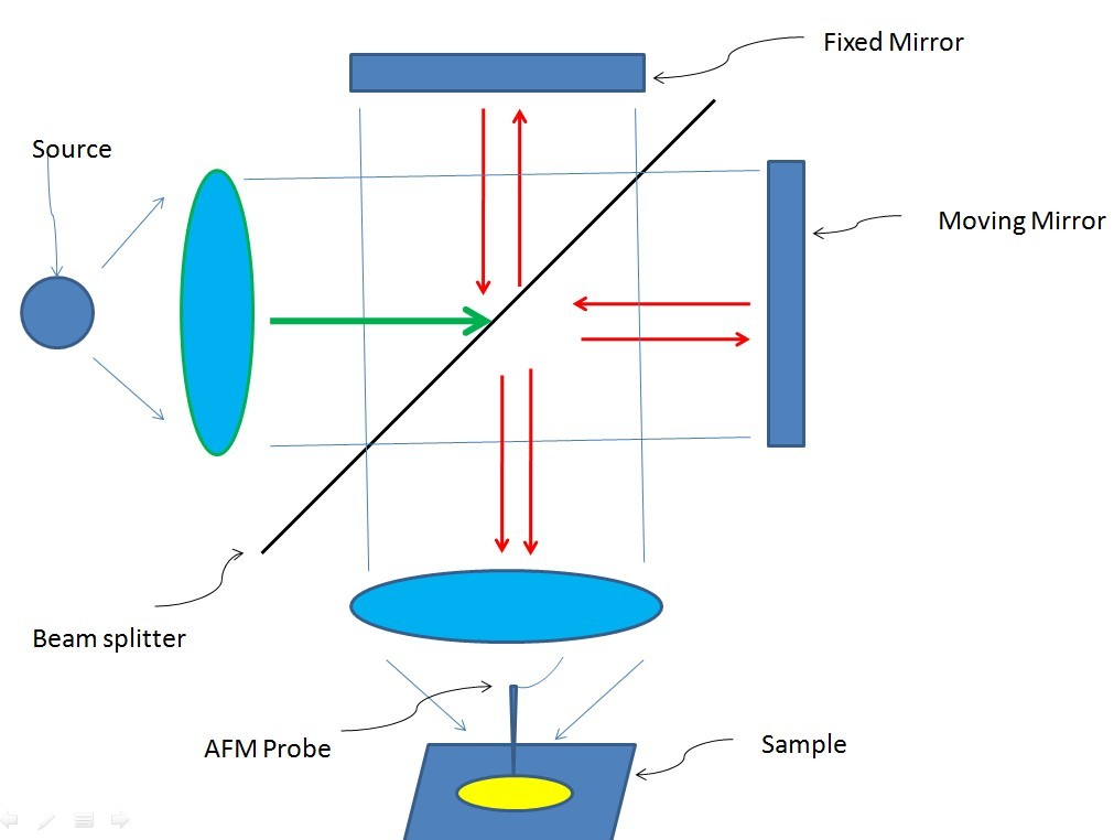 General approach used for AFM-FTIR. The output from the probe will resemble an interferogram and undergo Fourier-transform to obtain the infrared absorption spectrum of the sample.